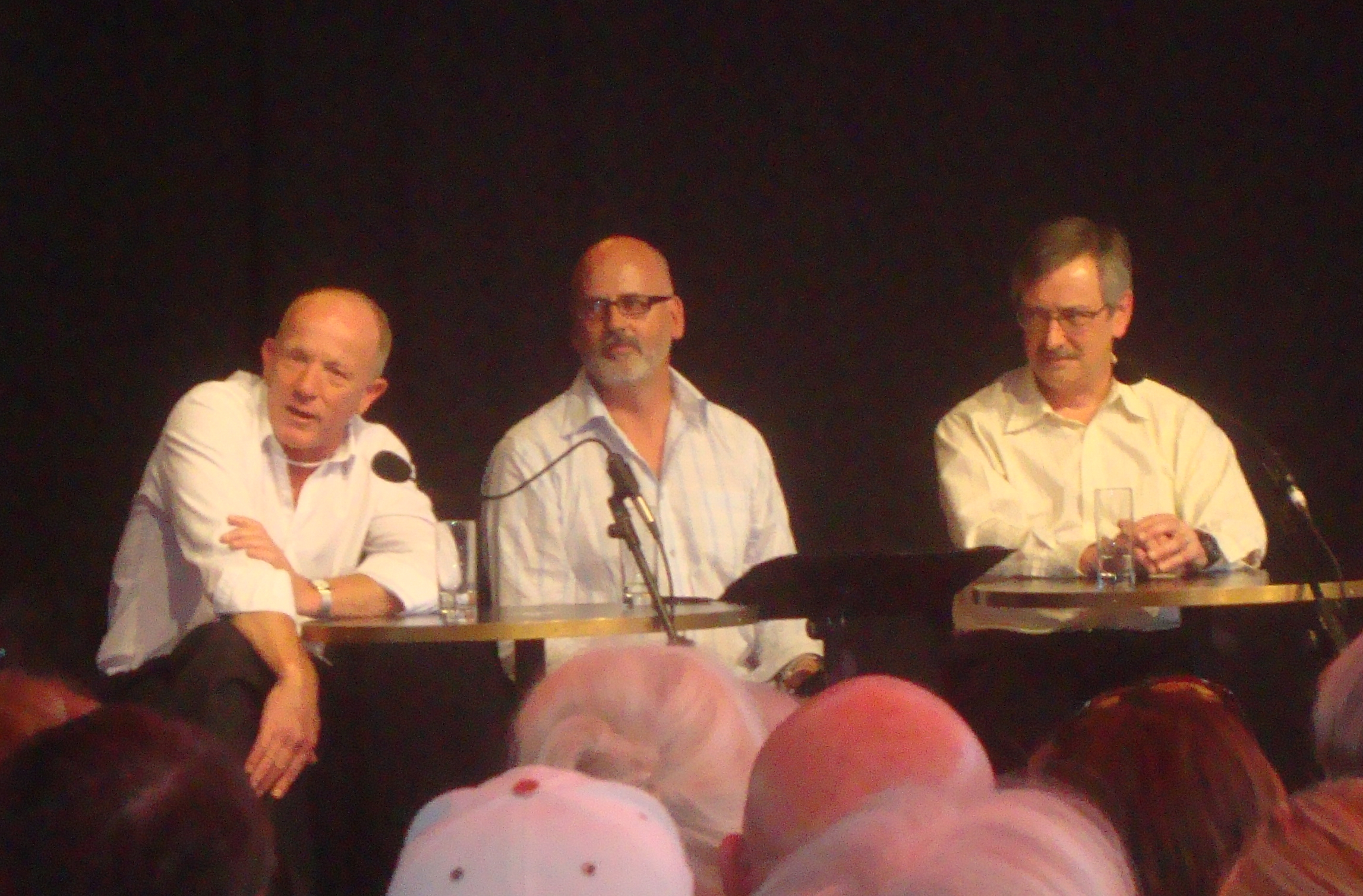 Joe Bennett (Lyttelton, on the left), Andrew Holden (editor of The Press) and Rod Oram (Auckland) at a panel discussion in Christchurch.